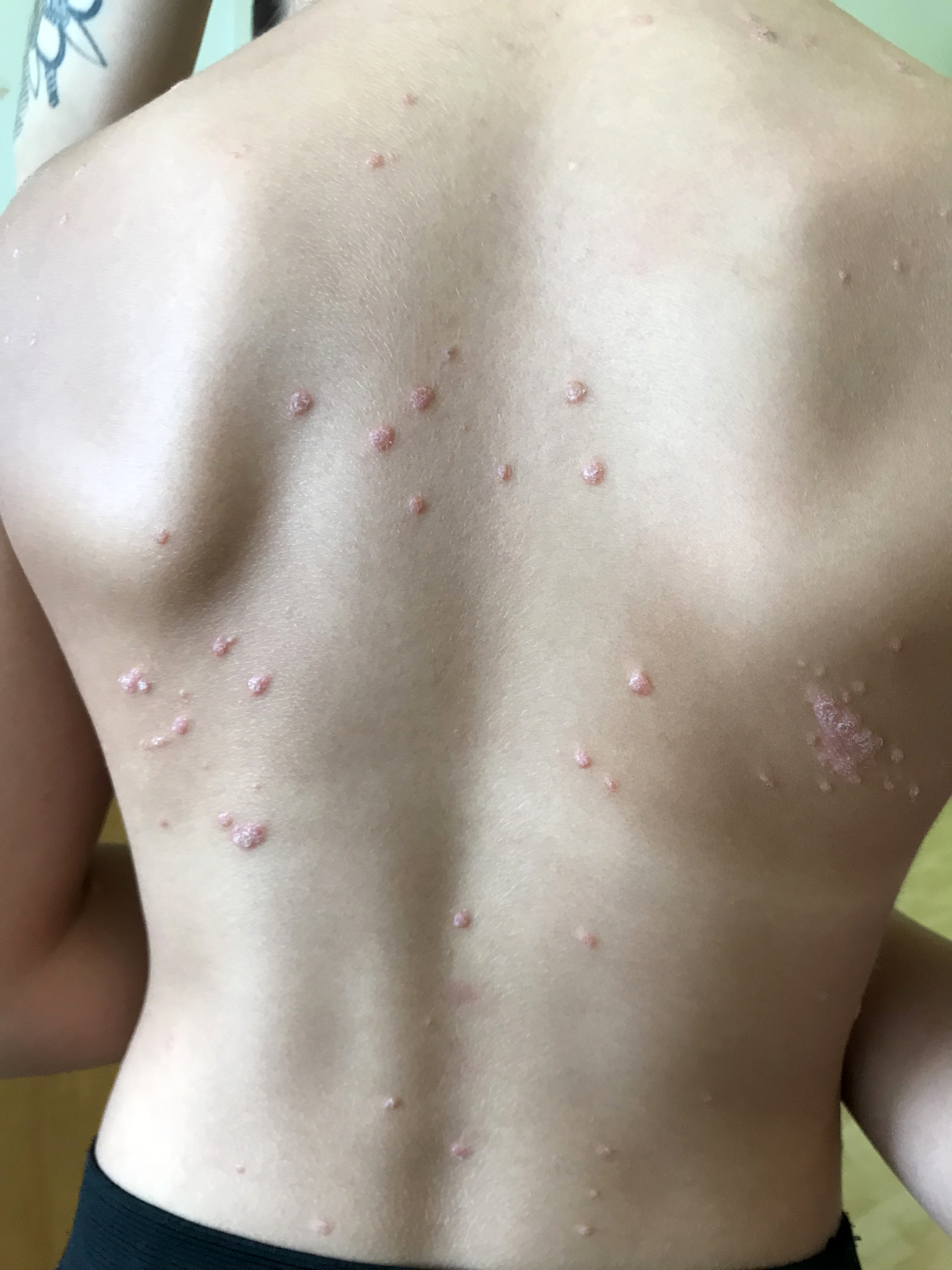 Guttate psoriasis (9 years old girl)